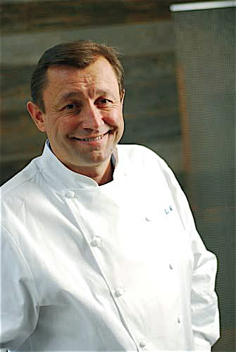 Laurent Manrique, French chef of Aqua, San Francisco's first Michelin-starred restaurant